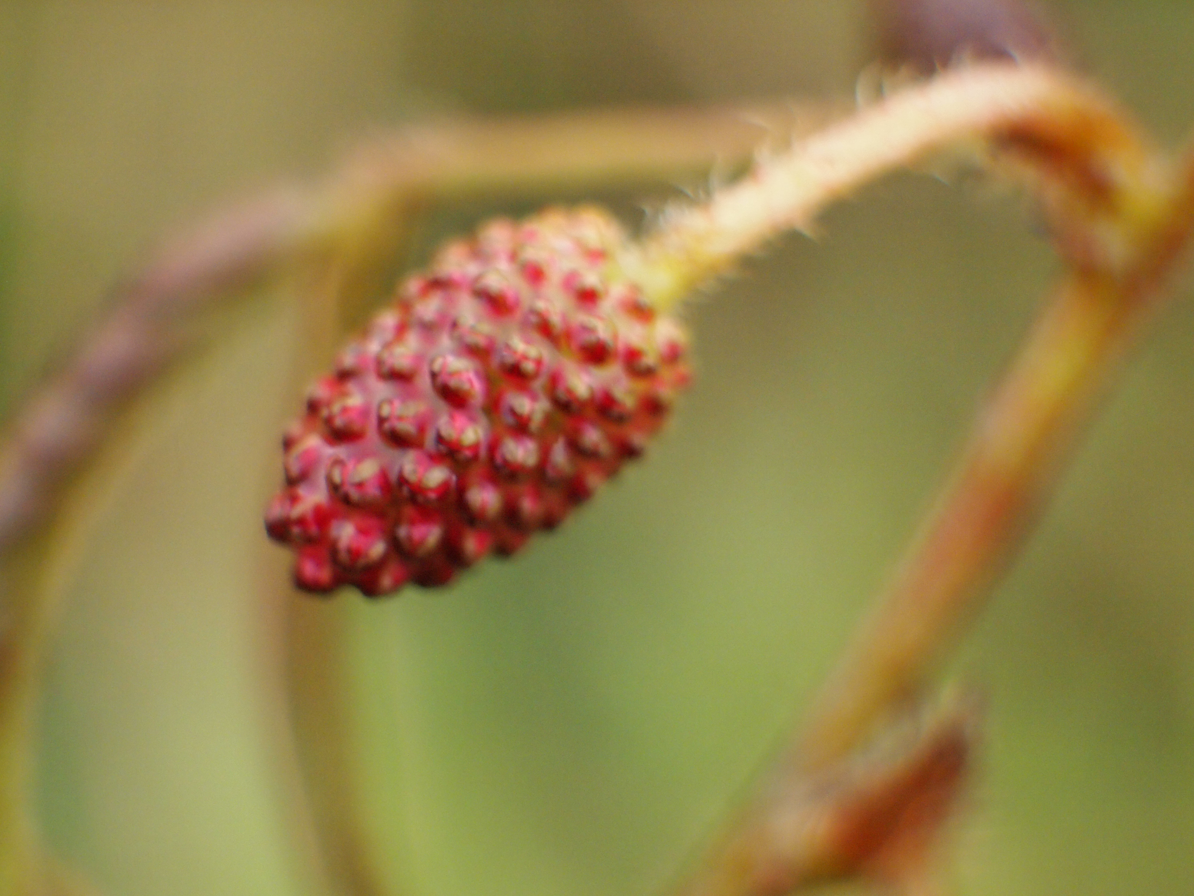 The fruit of Mimosa pudica in Malaysia